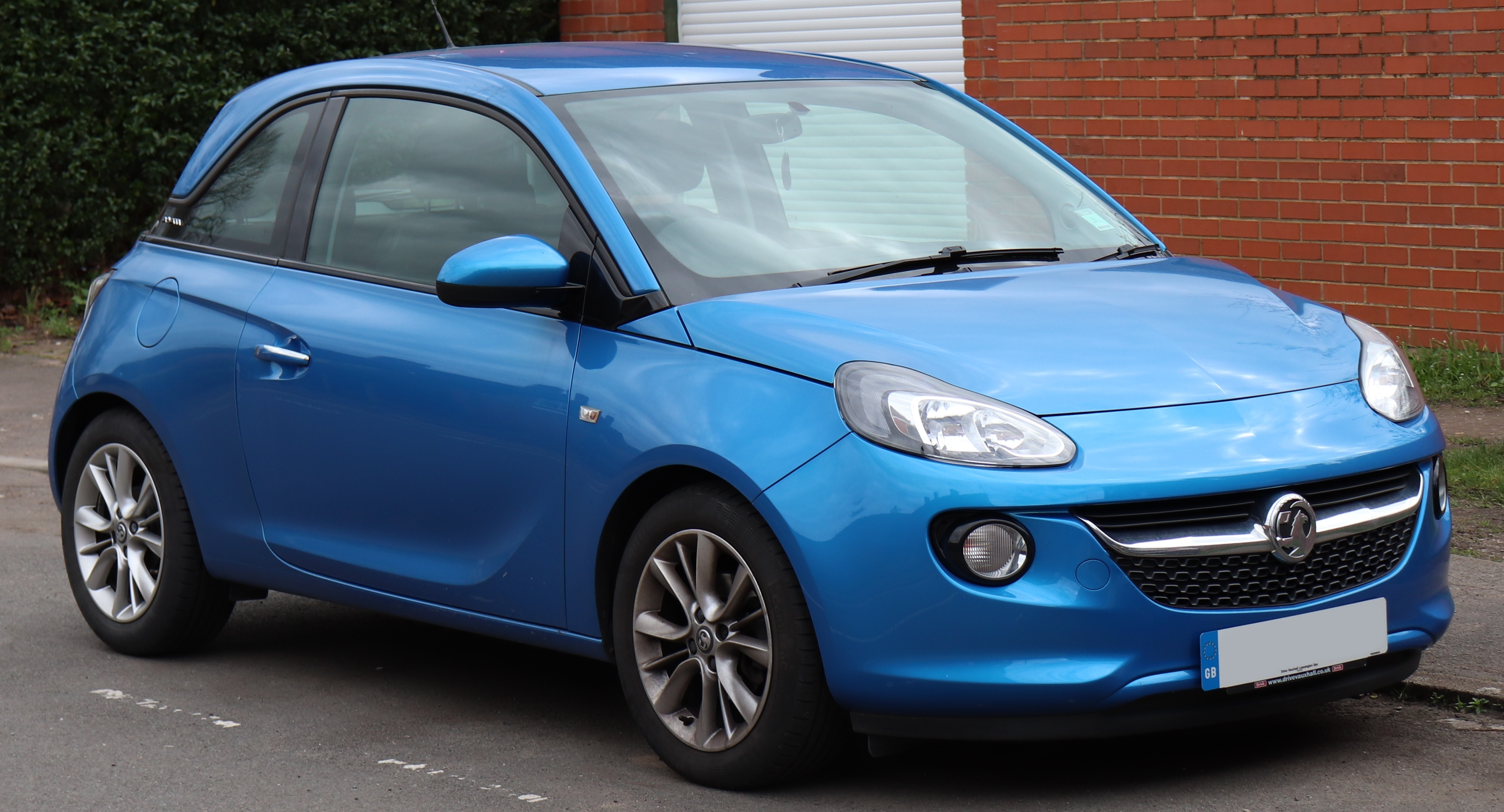 2014 Vauxhall Adam JAM 1.2 Front Taken in Warwick